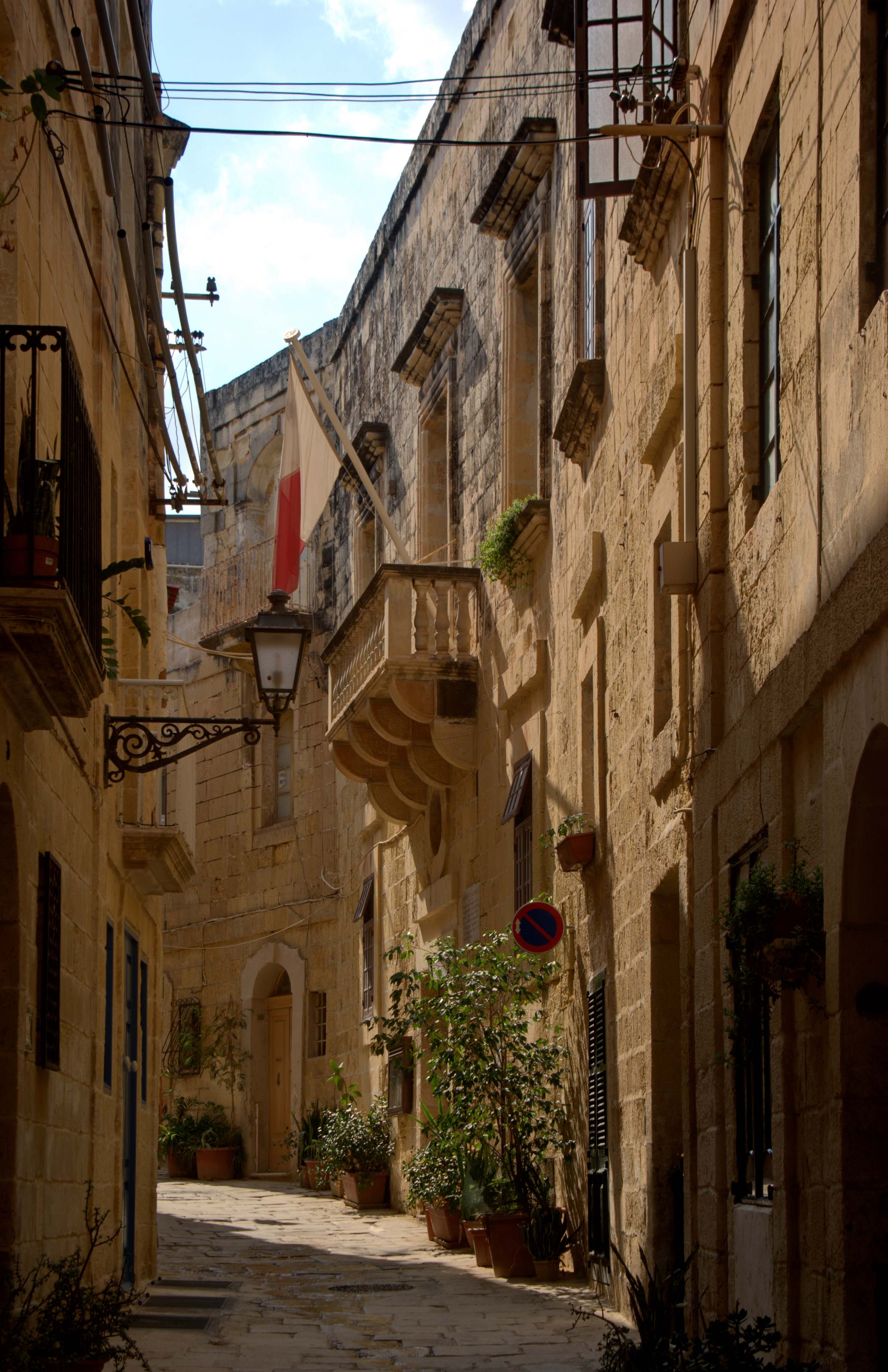 Auberge d'Angleterre in Birgu, MaltaMalti: Il-Berġa tal-Ingilterra fil-Birgu, Malta.